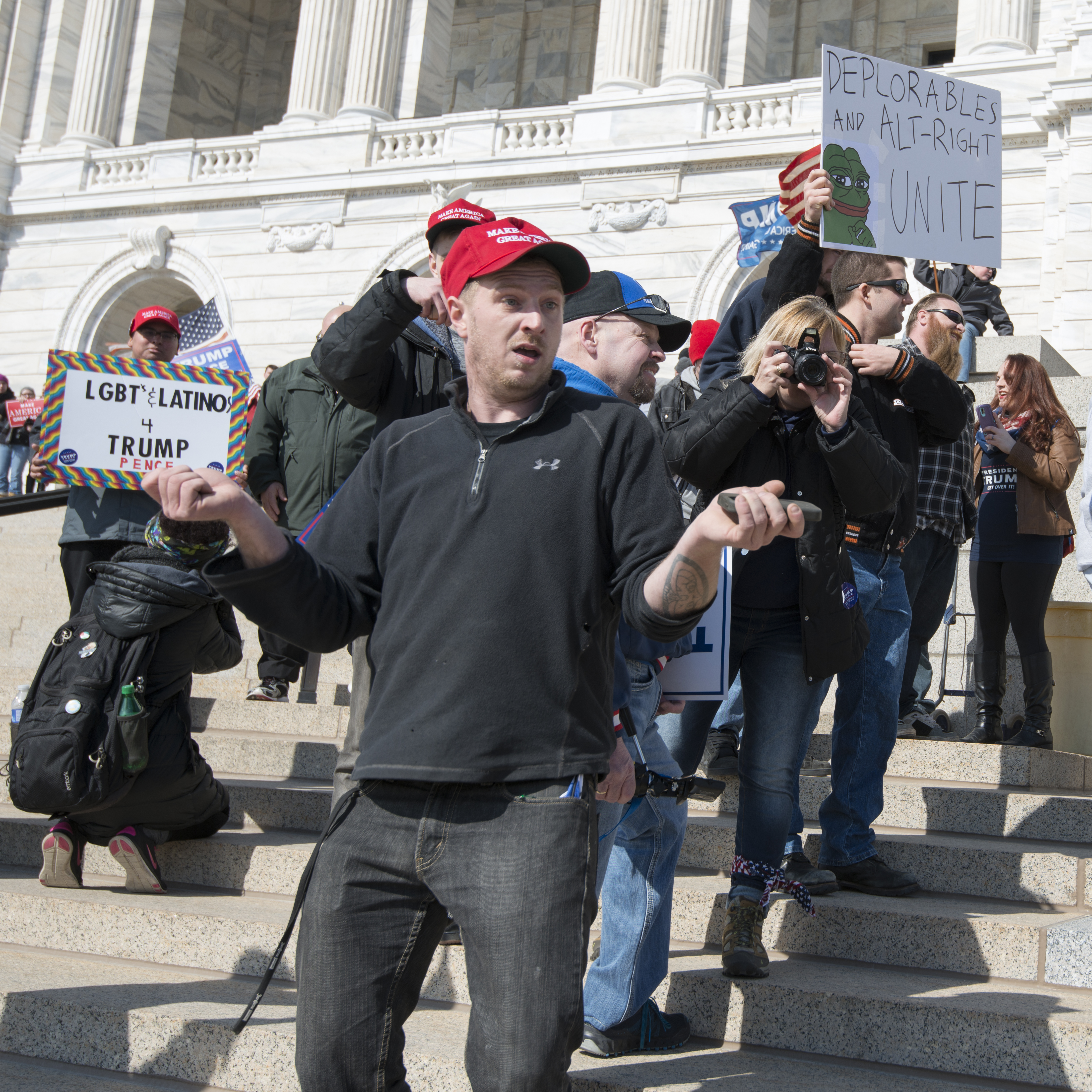 Trump supporters at the "March 4 Trump" rally in Saint Paul, Minnesota mock anti-Trump protesters.